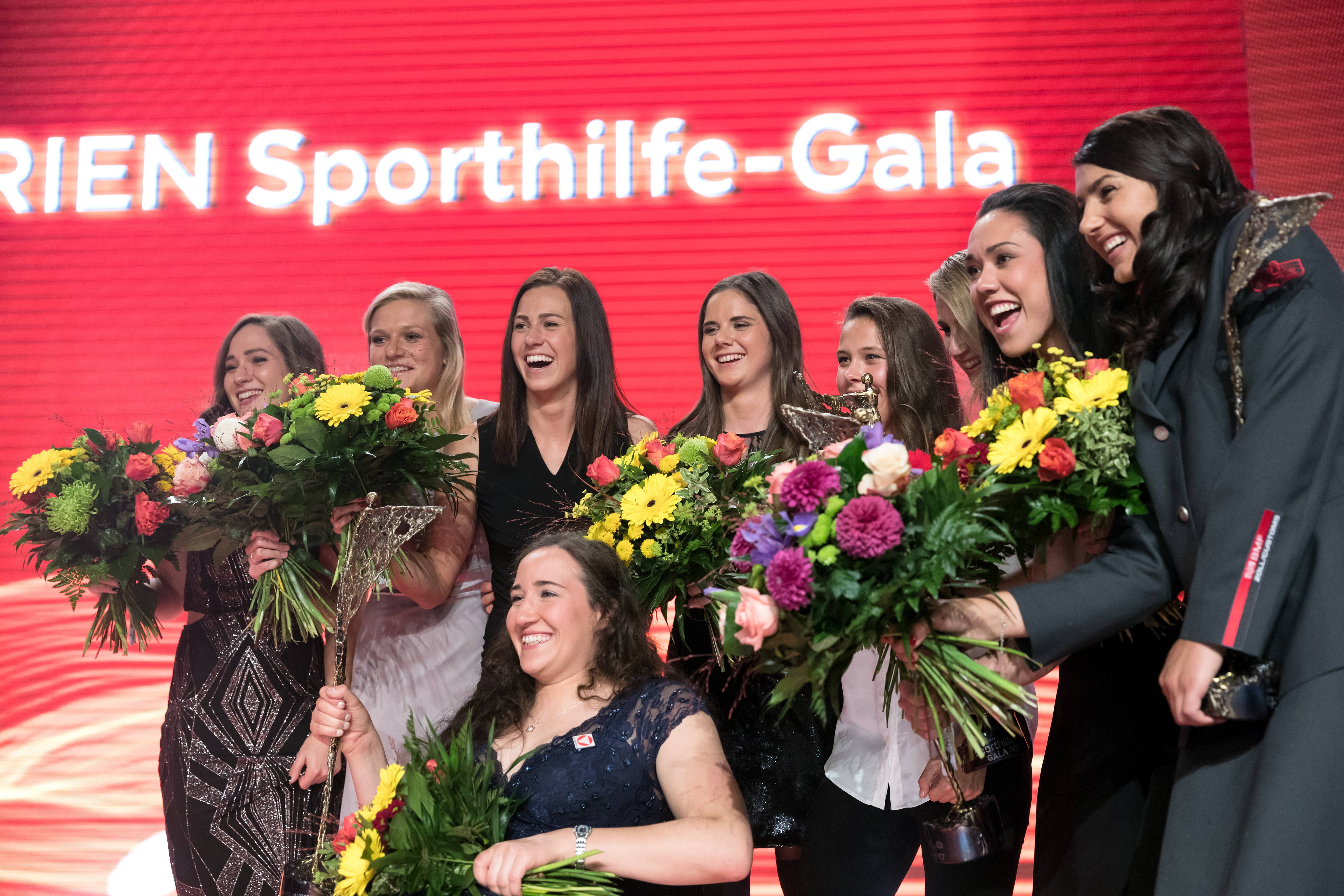 The female Austrian Sports Personalities of the Year 2017 (Marx Halle, Sankt Marx, Vienna, Austria).